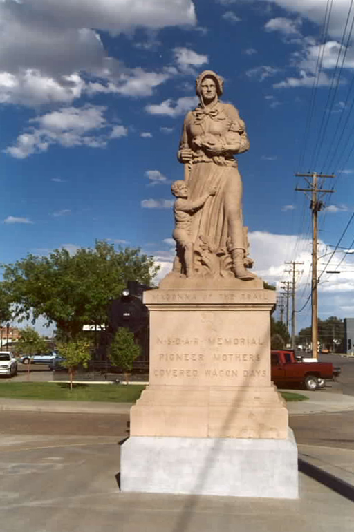 photo by Einar Einarsson Kvaran (user who uploaded) Madonna of the Trail monument in Lamar, Colorado